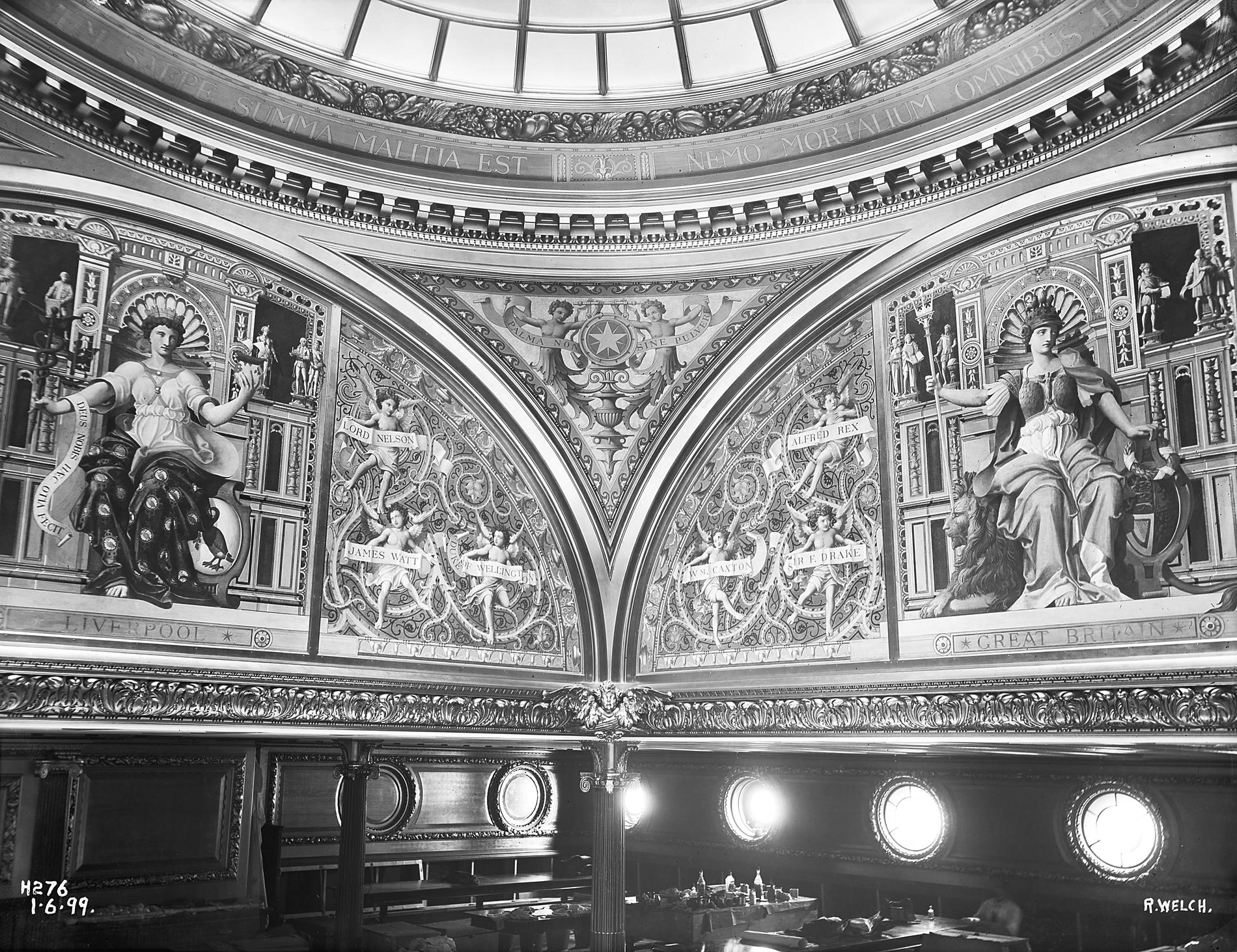 Creator: R. Welch (Photographer) Date: c.1914 Original Format: Photographic Print Description: The Oceanic Ship, Dome PRONI Ref: D1403_2~050~A Copying and copyright: Please For Copy Orders, contact: For fees and charges